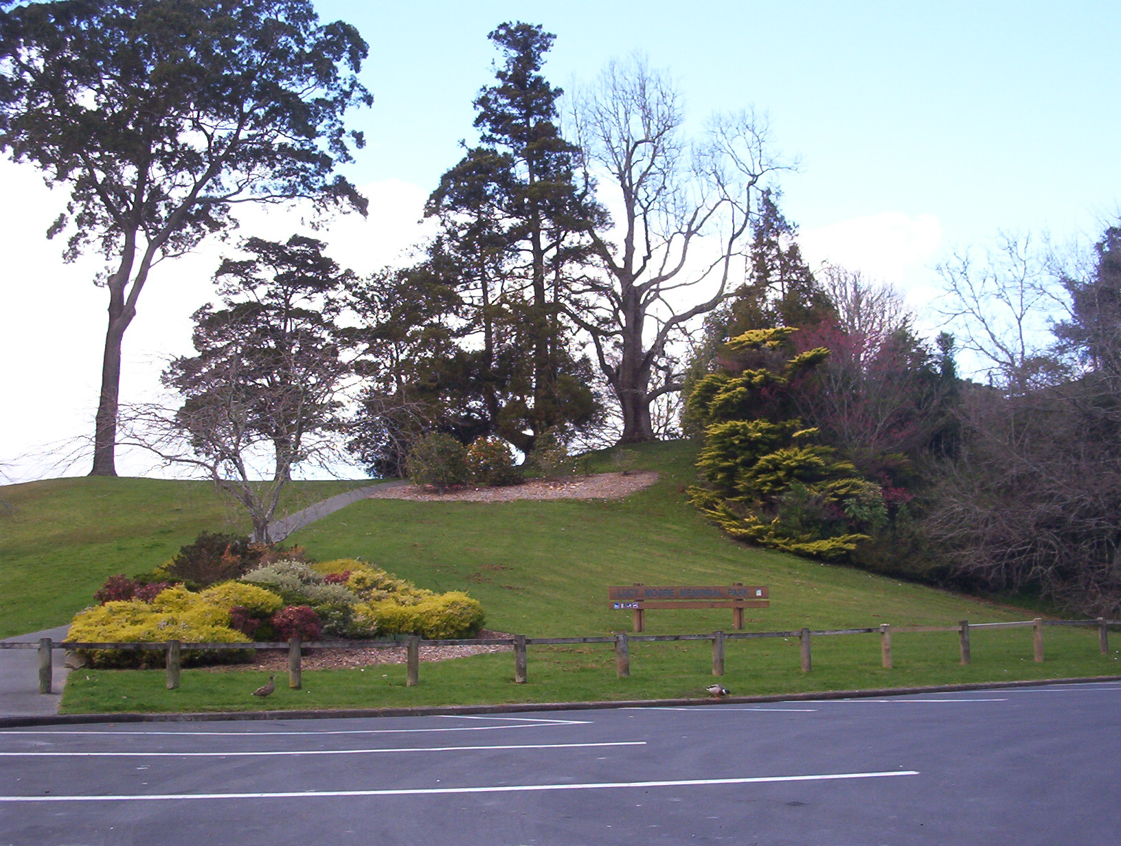 Front entrance of Lucy Moore Memorial Park in Warkworth taken from the end of Baxter Street. The park is named after New Zealand botanist and local resident Lucy Moore. Close inspection reveals a pair of ducks, a common sight near the river.